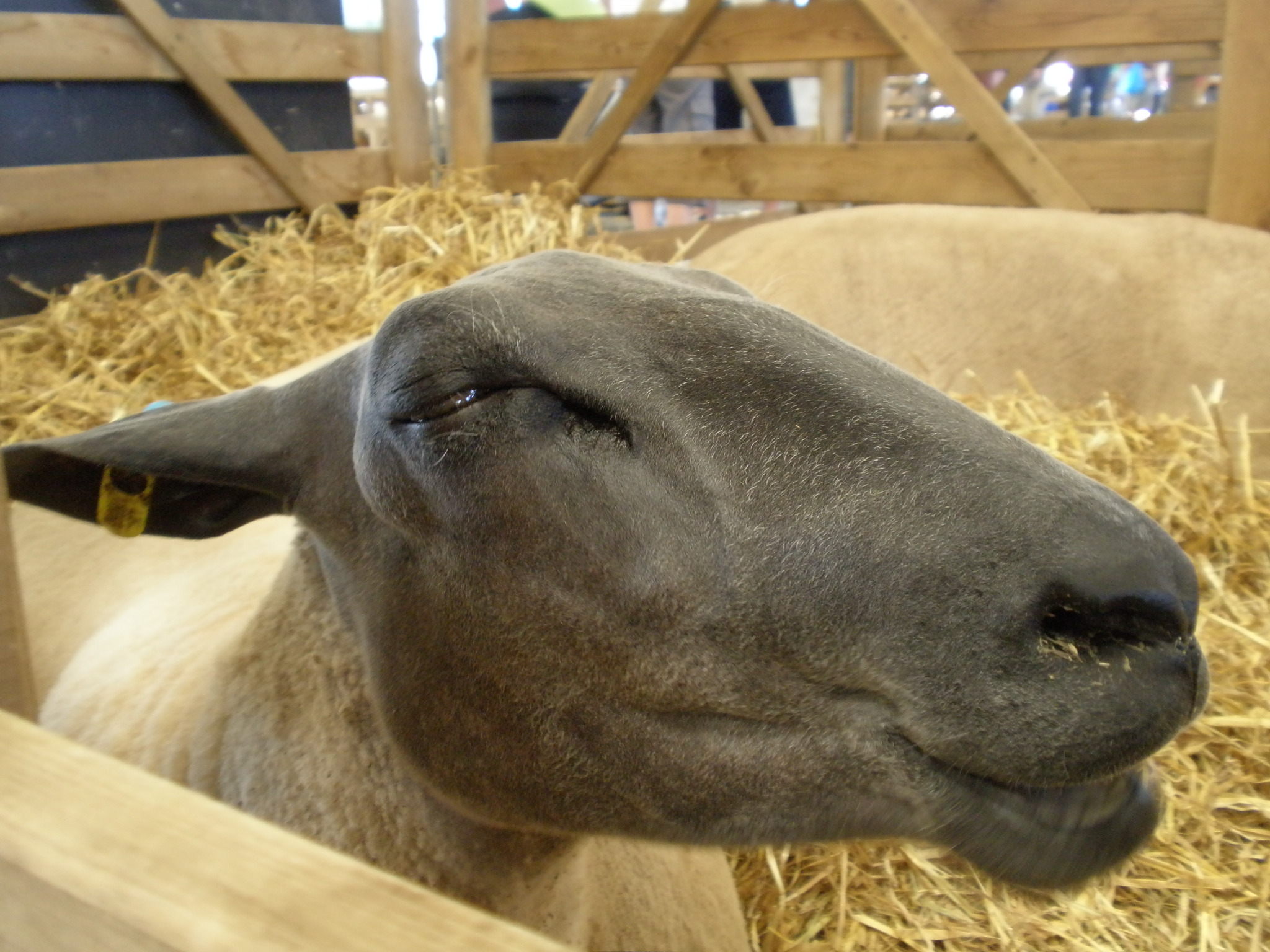 Bleu du Maine sheep at the Southdown Show.